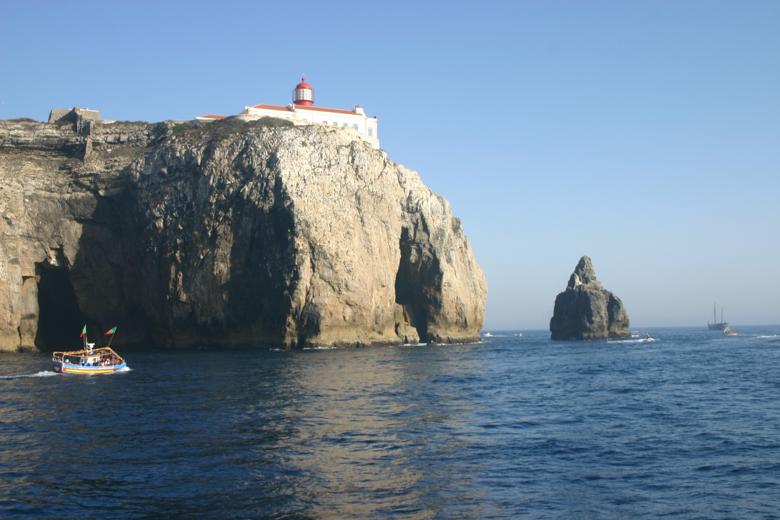 Autor: António ML Cabral Esta foto pode ser usada para qualquer tipo de utilização com a condição de ser indicado o nome do autor. This picture can be used for all kinds of usage with the condition of the author's name to be indicated.